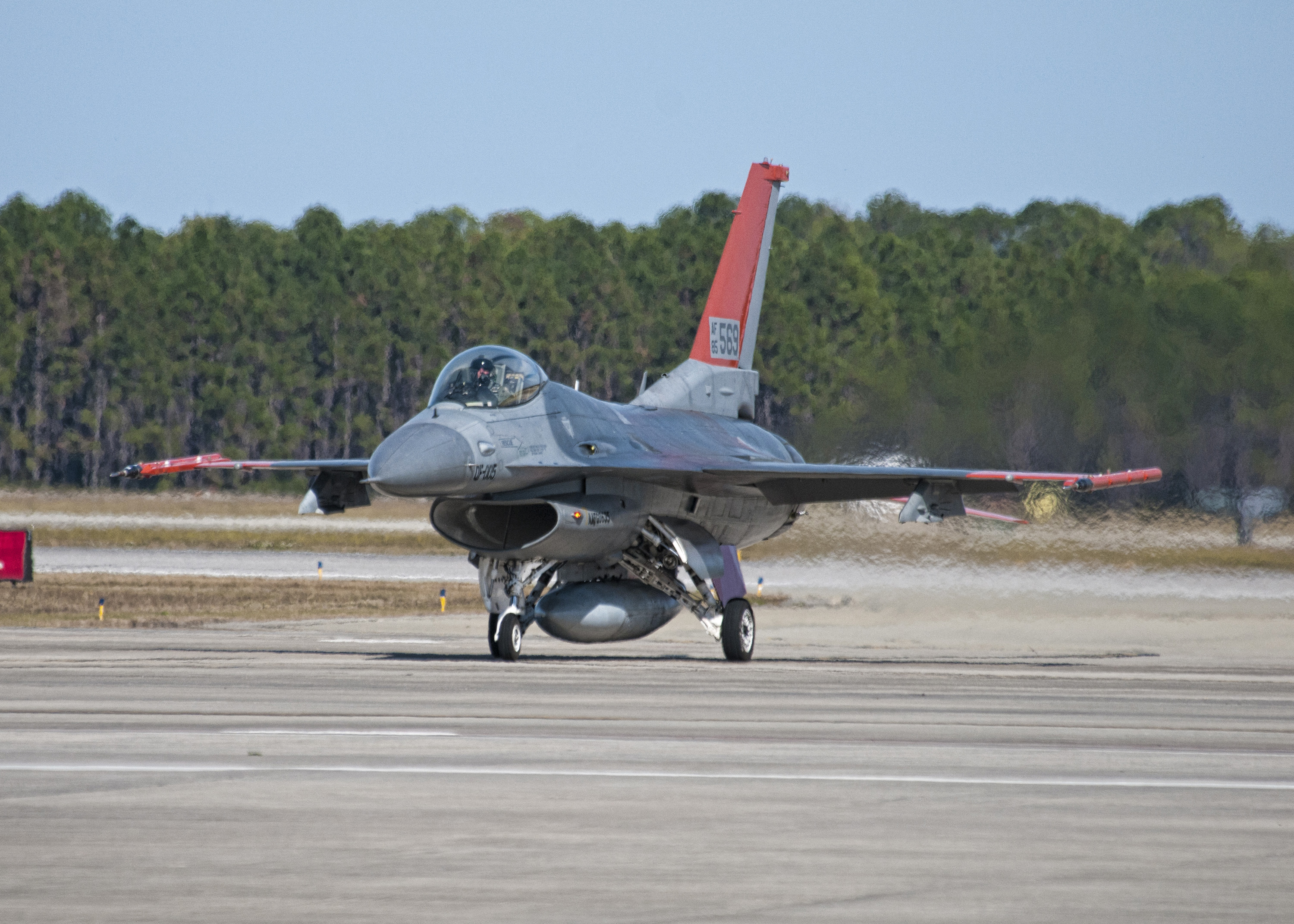 The first U.S. Air Force General Dynamics QF-16 Fighting Falcon (F-16C, s/n 85-1569) arrives at Tyndall Air Force Base, Florida (USA), escorted by a McDonnell Douglas QF-4E Phantom II on 19 November 2012. The QF-16 was to undergo developmental testing by Boeing to eventually become part of the 53rd Weapons Evaluation Group. The QF-16 is a supersonic reusable full-scale aerial target drone modified from an F-16 Fighting Falcon. Up to this time, the group used QF-4s, made from 1960s F-4 Phantom IIs, to conduct their full-scale aerial target missions.